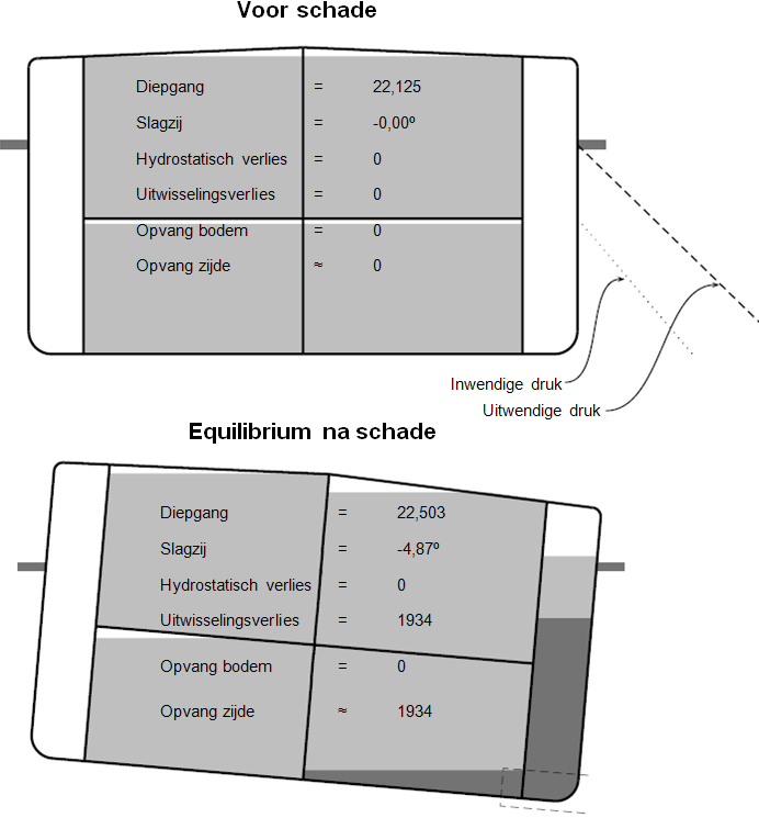 Mid-Deck Tanker